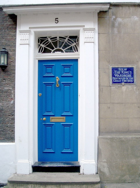 Wardrobe Court As it says on the plaque - the site of the King's Wardrobe, burnt down in 1666